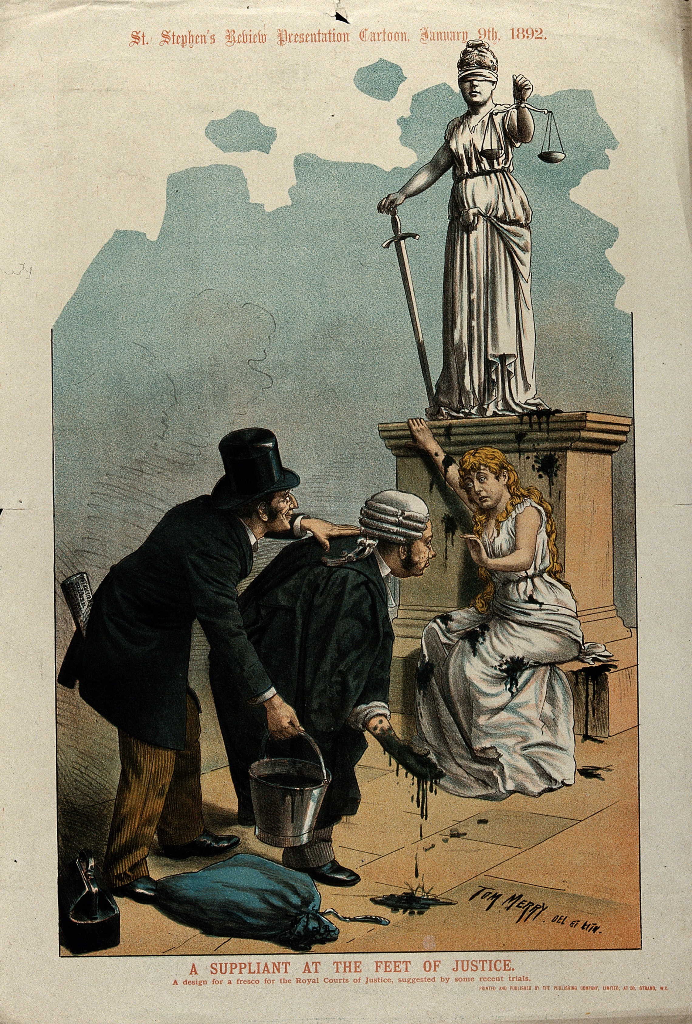 A political cartoon showing two men, one of them a barrister, throwing black paint to a woman sitting at the feet of a statue representing Justice. "A supplicant at the feet of Justice" Iconographic Collections Keywords: Lawyers; Justice; Satire; Statue; England; Cartoon; Tom Merry